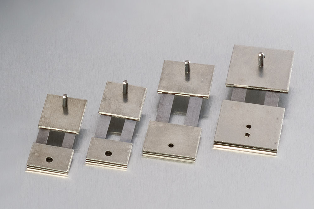 Pendulum suspension springs, Haller-Jauch clock plant, Schwenningen